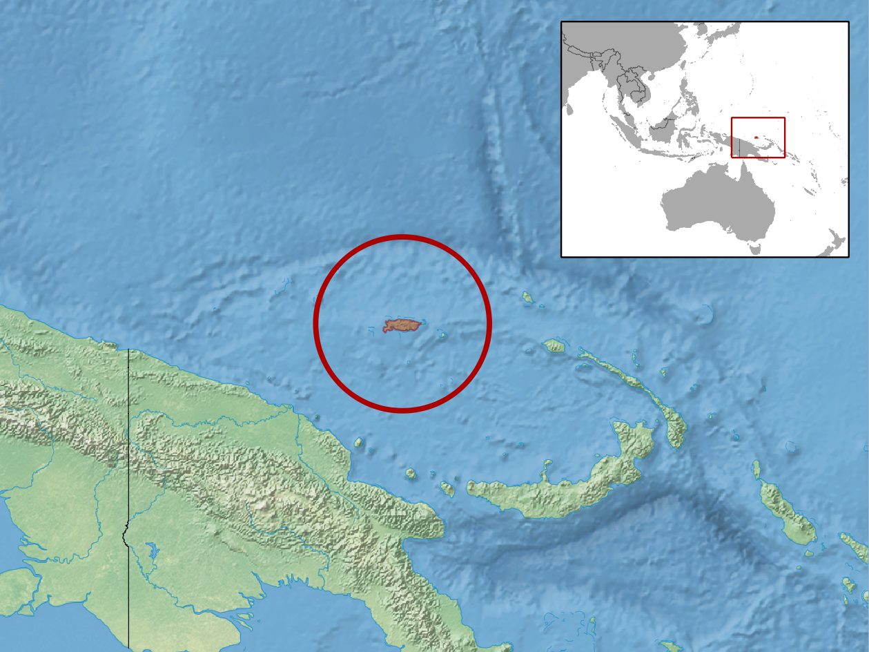 geographic distribution of Geomyersia coggeri